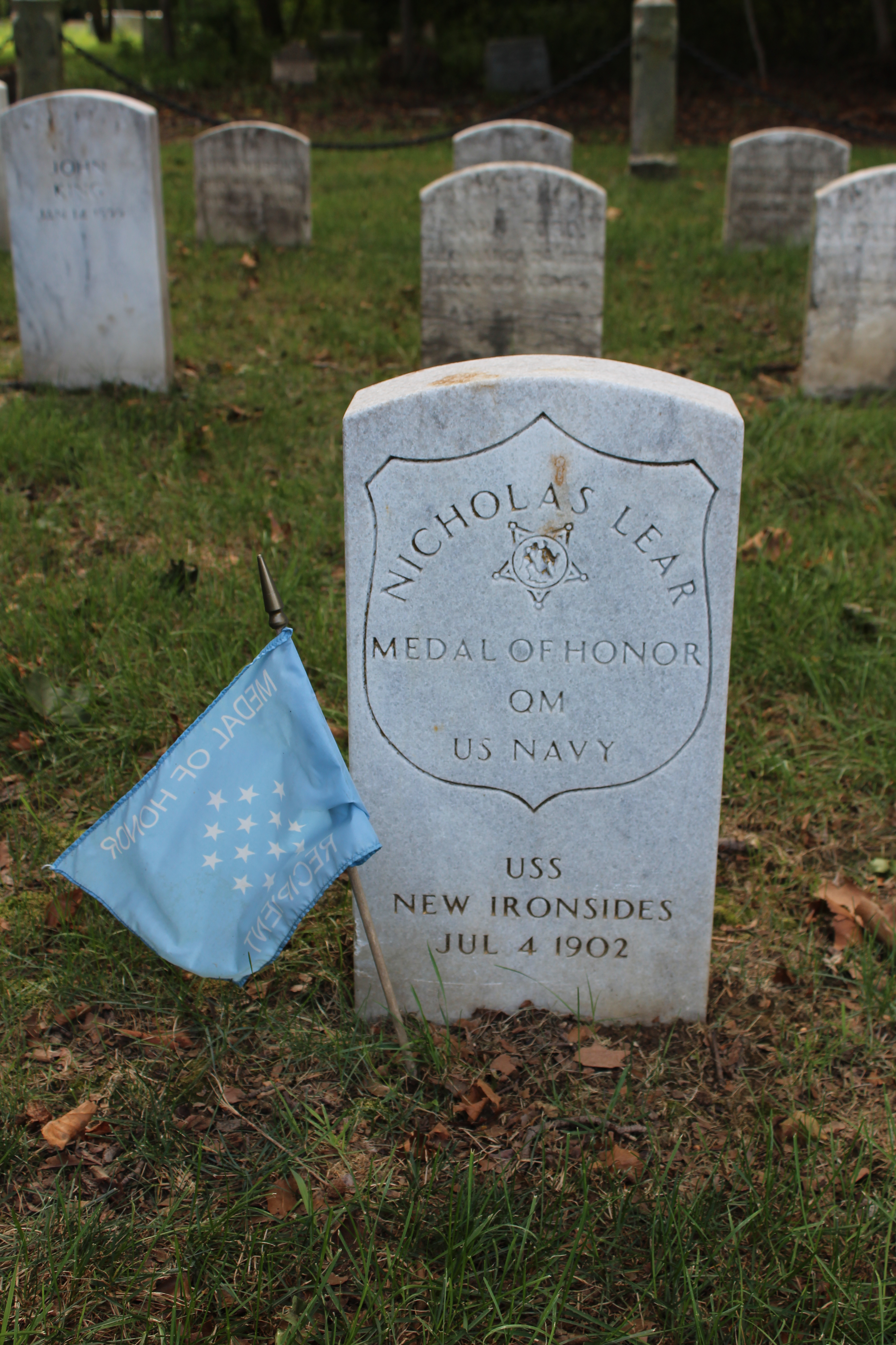 Nicholas Lear headstone in Mount Moriah Cemetery Naval Plot. Photo taken August 2019.